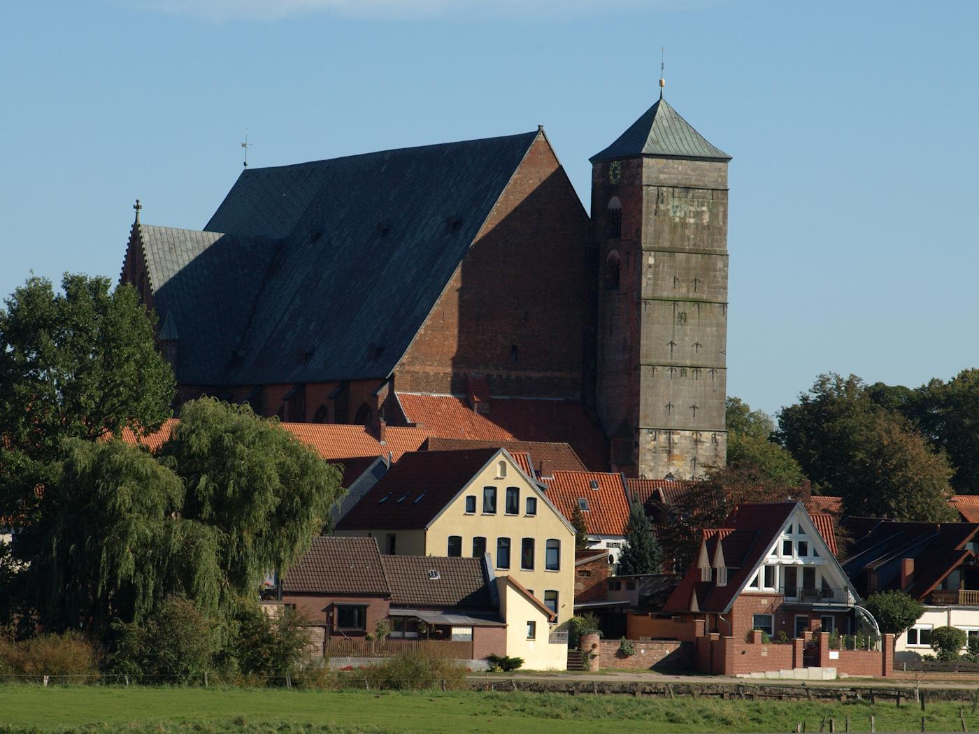 Verden(Aller), Germany, Cathedral from the west, photo 2011